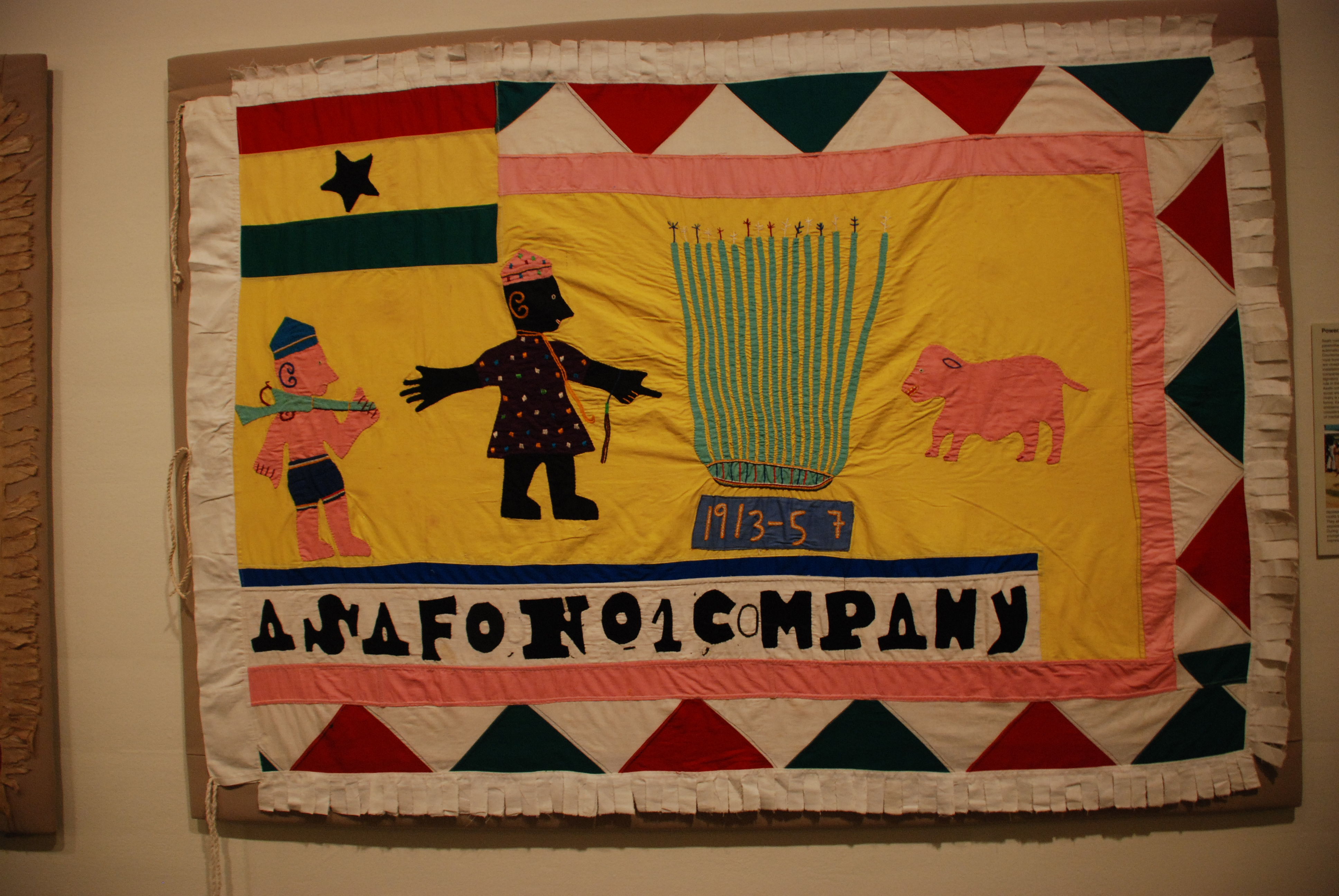 Asafo Flag, Tuafo No. 1 Company, Assafa, created by Kwame Sumene, Fante, Ghana, c. 1981 Cotton and rayon, embroidery and appliqué Gift of Mrs. Thomas Davis, 1989 (5887.1) Wikipedia Loves Art at the Honolulu Academy of Arts This photo of item # 5887.1 at the Honolulu Academy of Arts was contributed under the team name "Team_Yatta" as part of the Wikipedia Loves Art project in February 2009. Honolulu Academy of Arts The original photograph on Flickr was taken by keska86—please add a comment to the original Flickr page whenever a use has been made on Wikipedia or another project. Project galleries on Flickr: this institution, this team